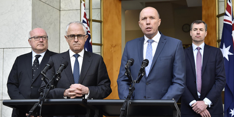 George Brandis (Attorney-General for Australia), Malcolm Turnbull (Prime Minister of Australia) and Peter Dutton (Minister for Immigration and Border Protection) at the announcement of a new home affairs portfolio.